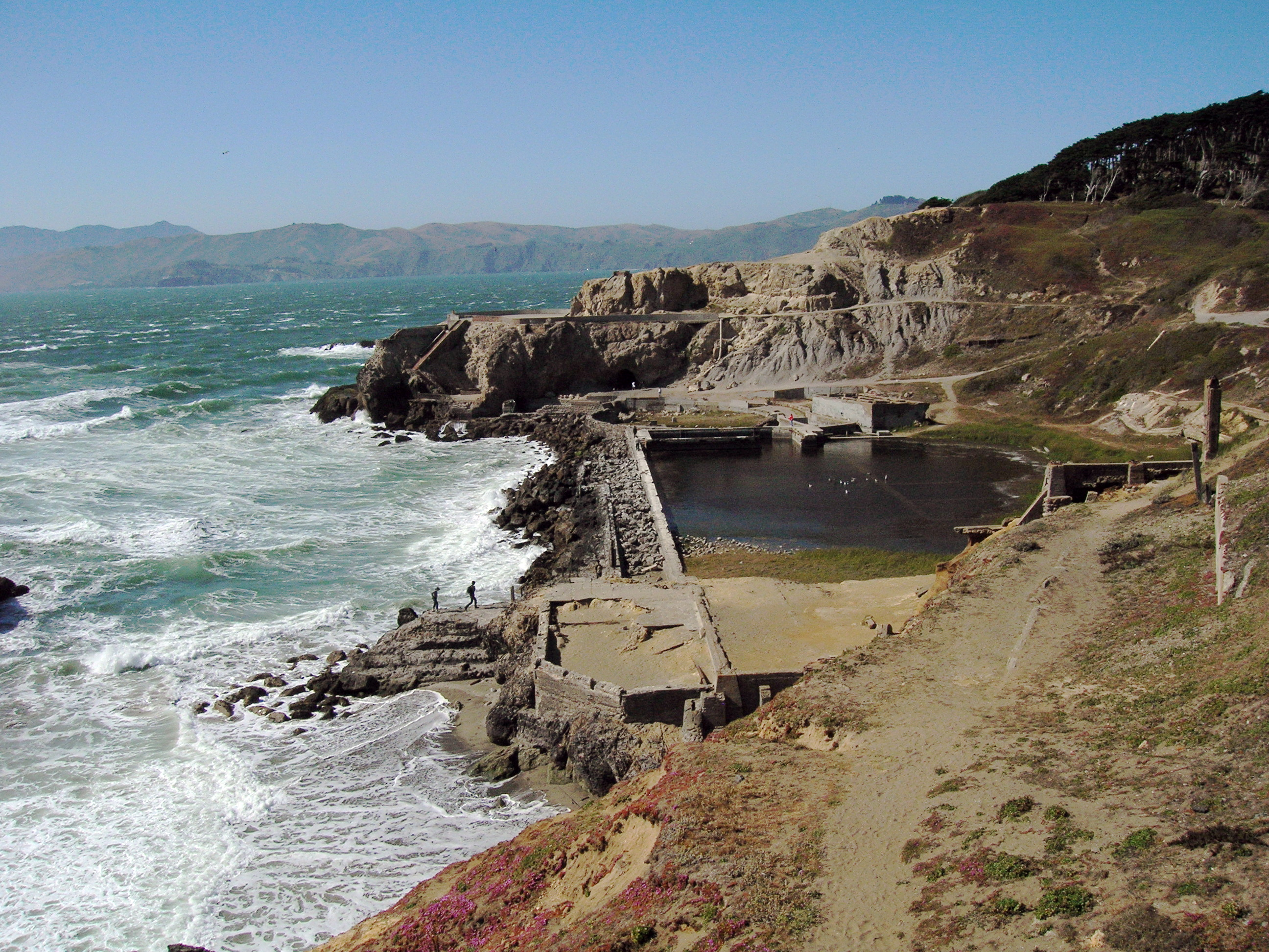 Sutro Baths was a privately owned swimming pool in San Francisco, California that was built in the 19th century. It is today abandoned.